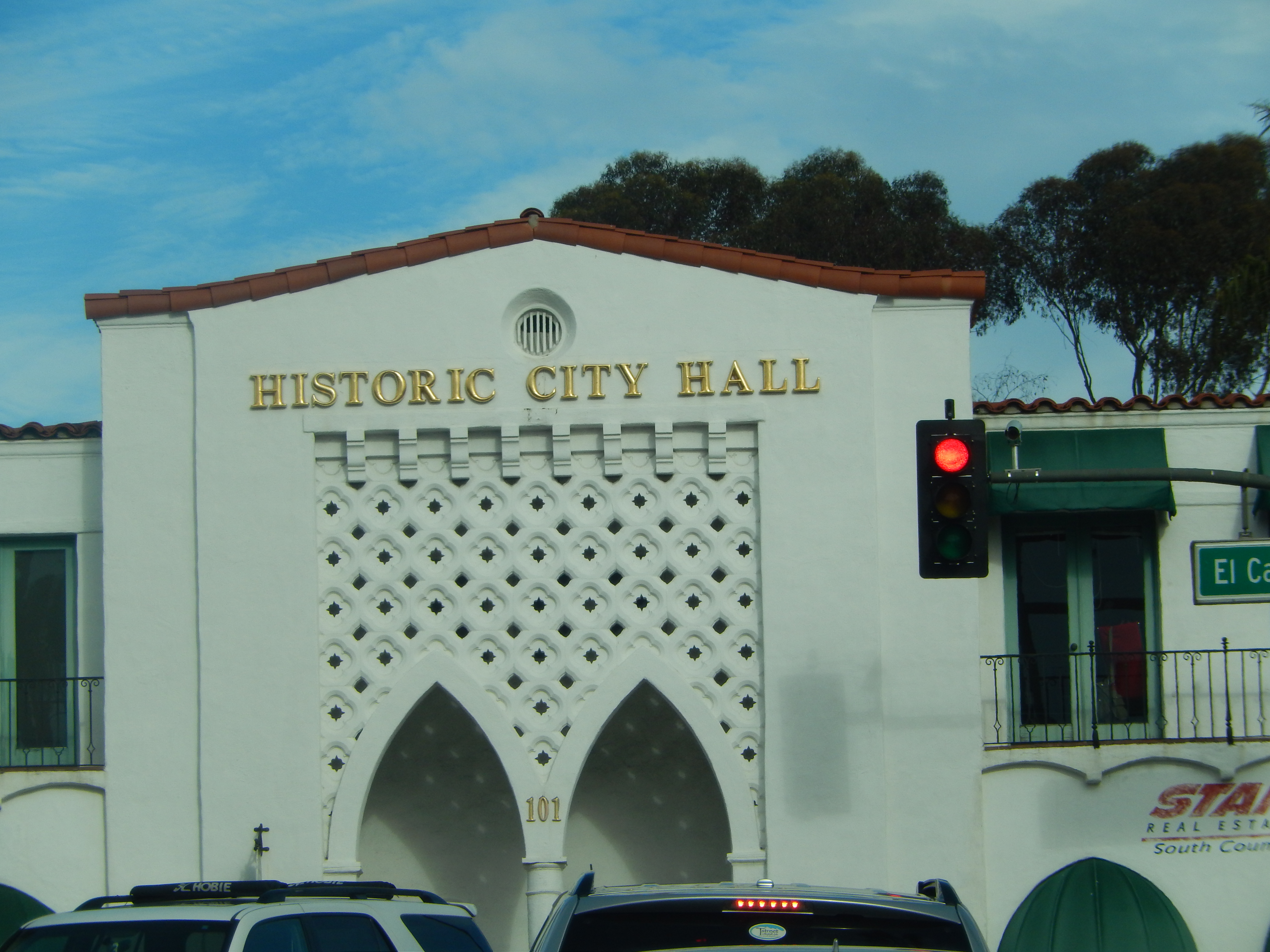 I took photo of Historic City Hall in San Clemente, CA, with Nikon camera.